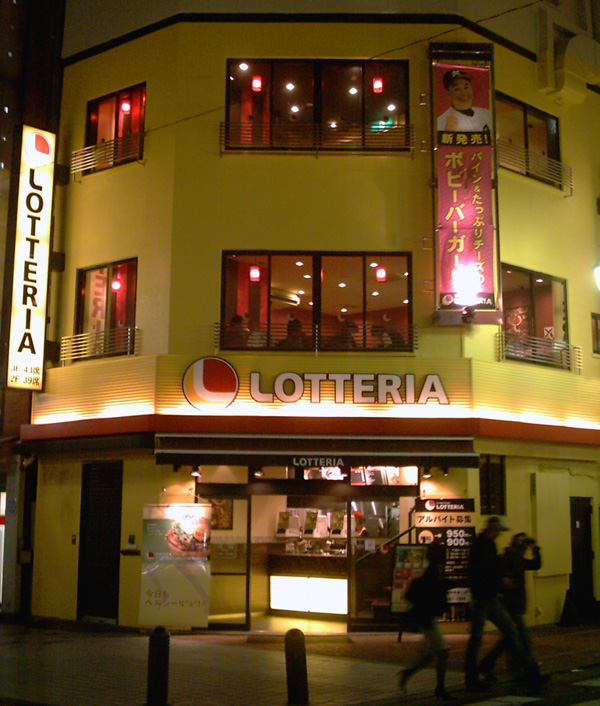 Lotteria_Fast food restaurants Japan